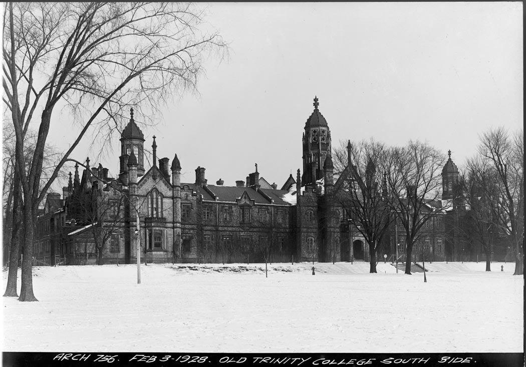 The south side of Old Trinity as it appeared in 1928